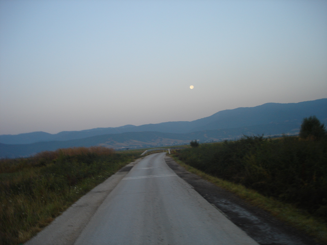 Early dawn over Pelagonia and Busheva Mountain, Maccedonia